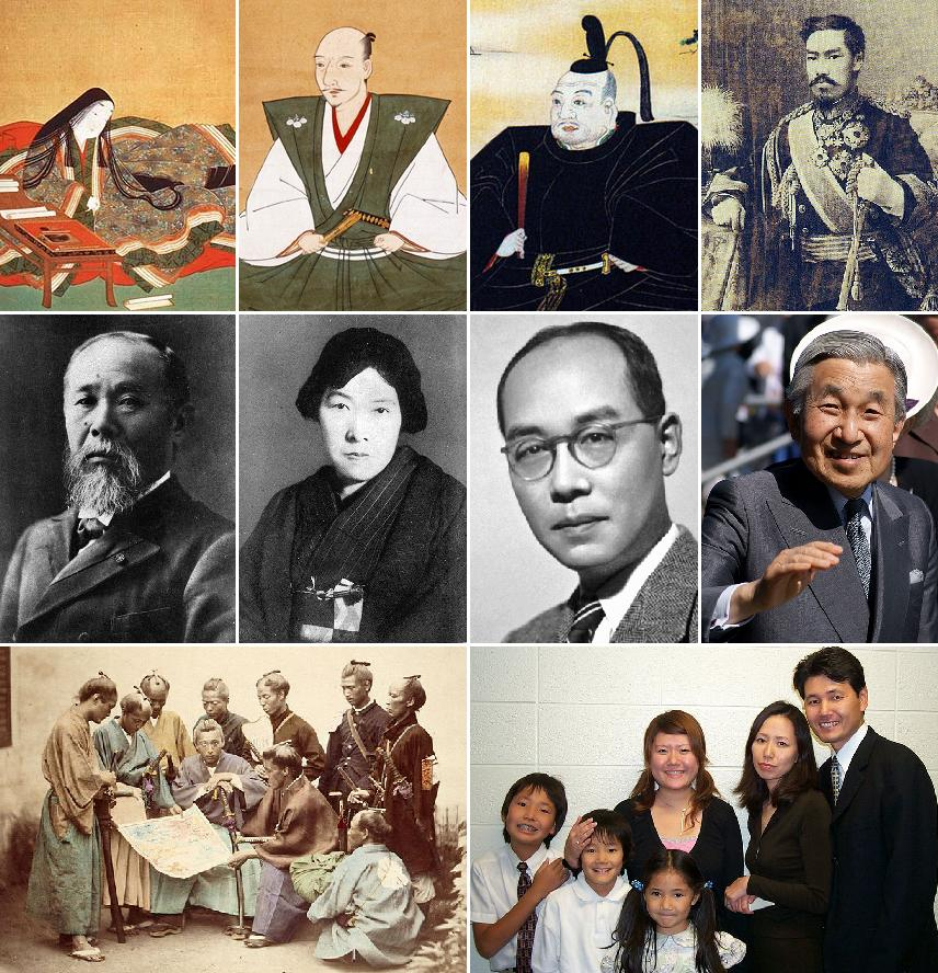 Various Japanese people From left to right of the upper section: Murasaki Shikibu Oda Nobunaga Tokugawa Ieyasu Emperor Meiji From left to right of the middle section: Hirobumi Itō Akiko Yosano Hideki Yukawa Emperor Akihito From left to right of the lower section: Samurai of Choshu during Boshin War Contemporary Japanese family